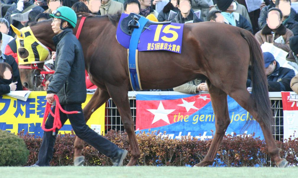 Time Paradox (Tokyo Daishoten)